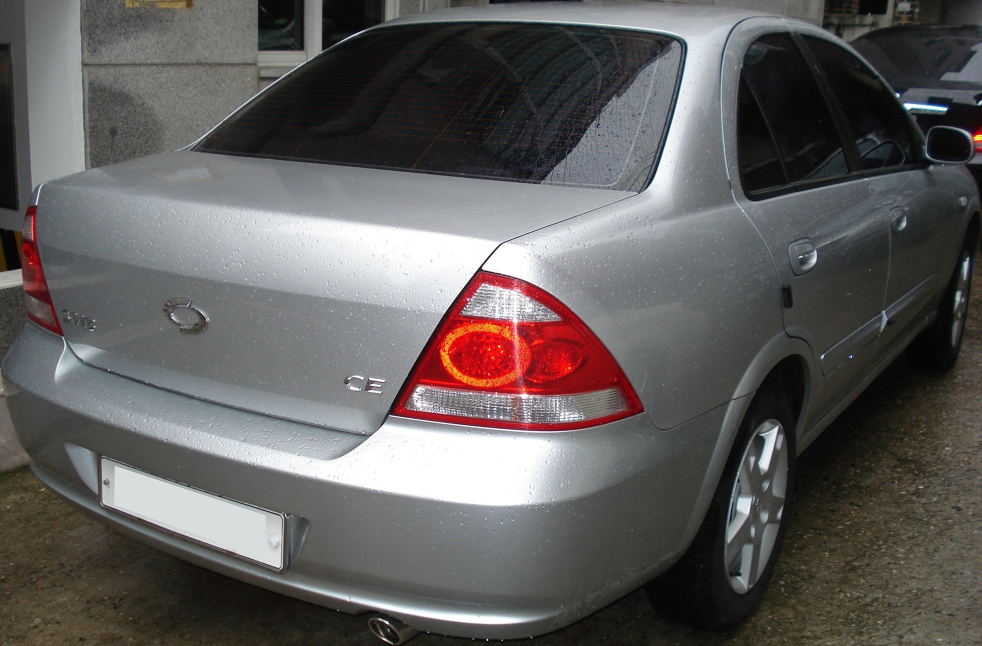 Renault Samsung SM3 CE